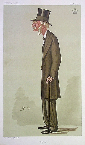 Caricature of George Frederick Upton, 3rd Viscount Templetown (1802-1890). Caption read "Upty". He was a General in the Army and also sat as Conservative Member of Parliament for County Antrim from 1859 to 1863. Between 1866 and 1890 Lord Templetown sat in the House of Lords as an Irish Representative Peer.